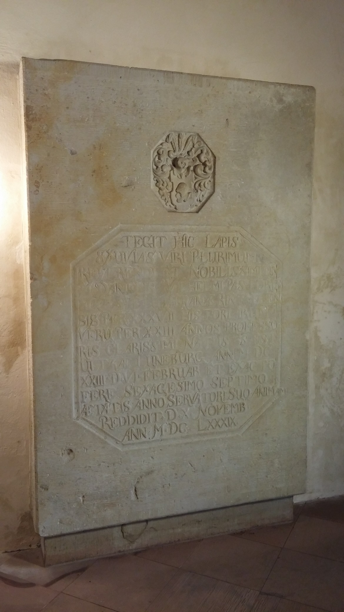 Rinteln St. Nikolai Kirche, tombstone of Reverend Daniel Wilhelmi